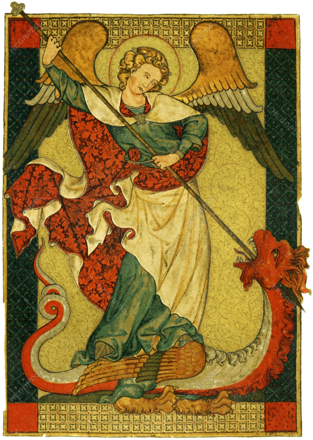 Late 13th century illustration of the Archangel Saint Michael defeating the Devil. It is in an antique illuminated manuscript style, the angel stands on Satan in the form of a dragon holding a spear aloft ready to strike.